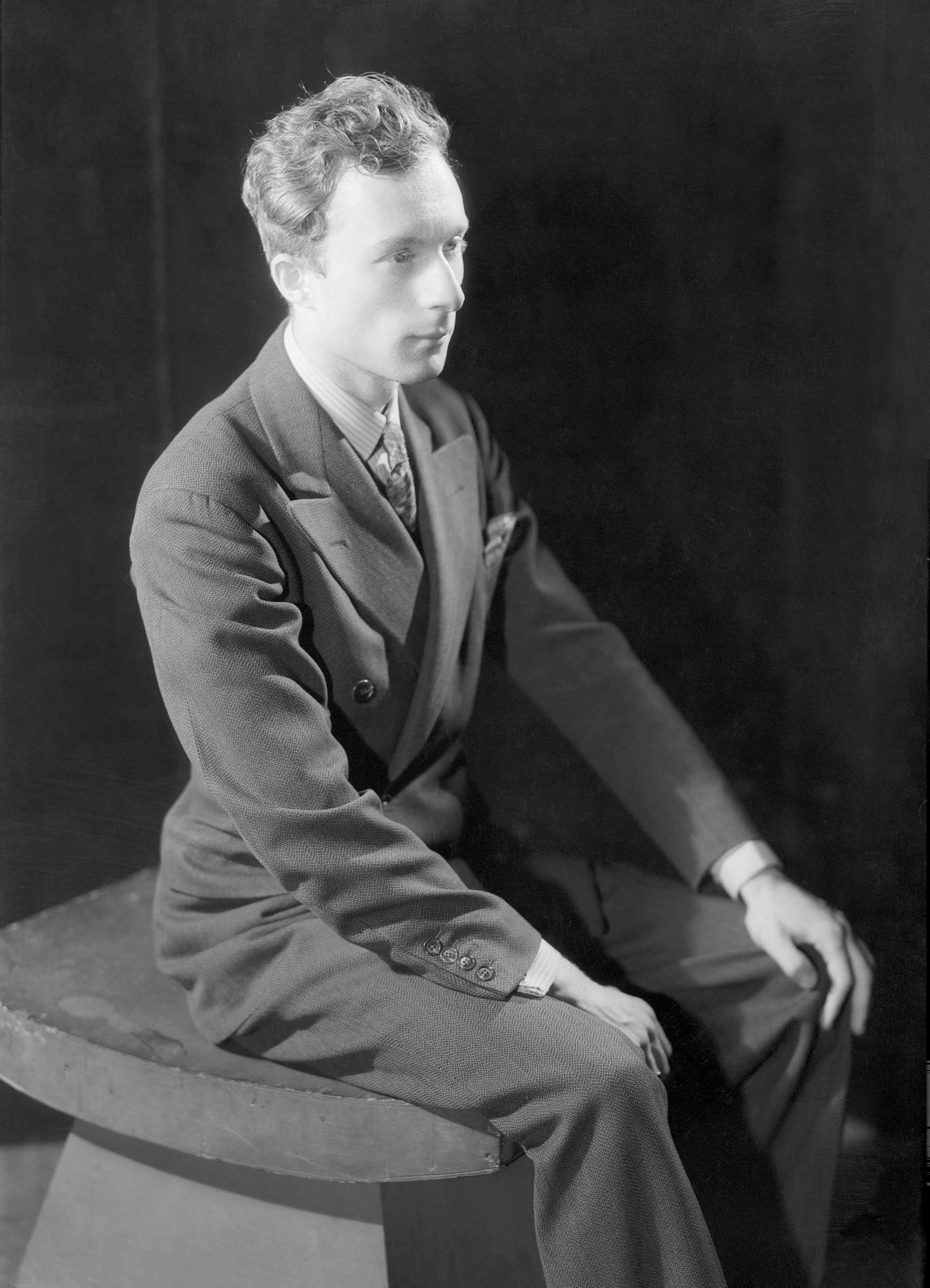 Cast photograph of Norman Lloyd in the Federal Theatre Project production of Power, a Living Newspaper play at the Ritz Theatre (February–August 1937)